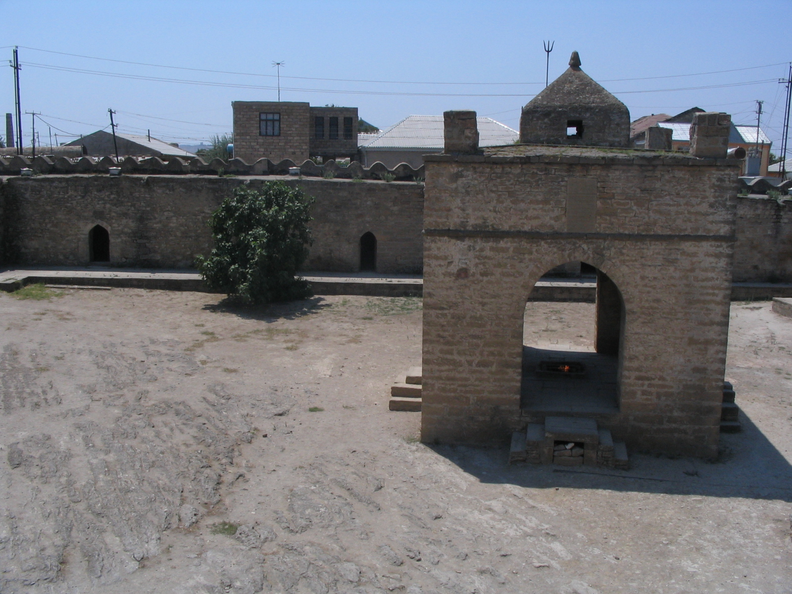 Inner courtyard of the complex in Baku, Azerbaijan